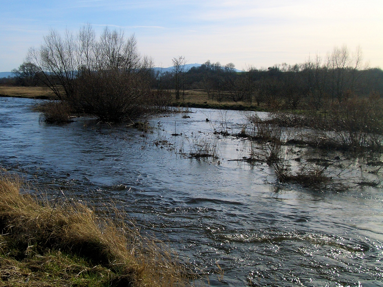 Okertal between Vienenburg and Schladen